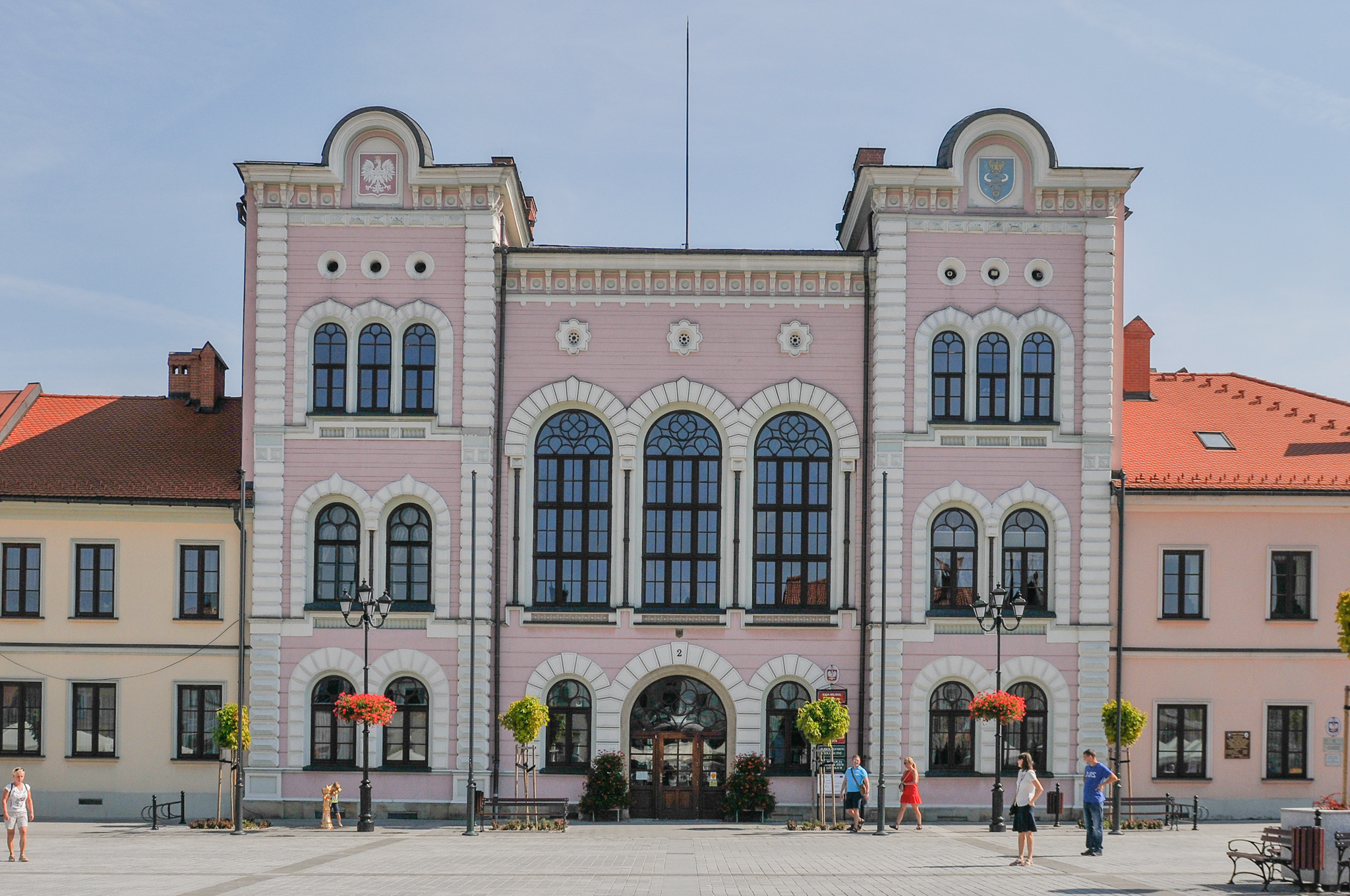 Town hall in Zywiec